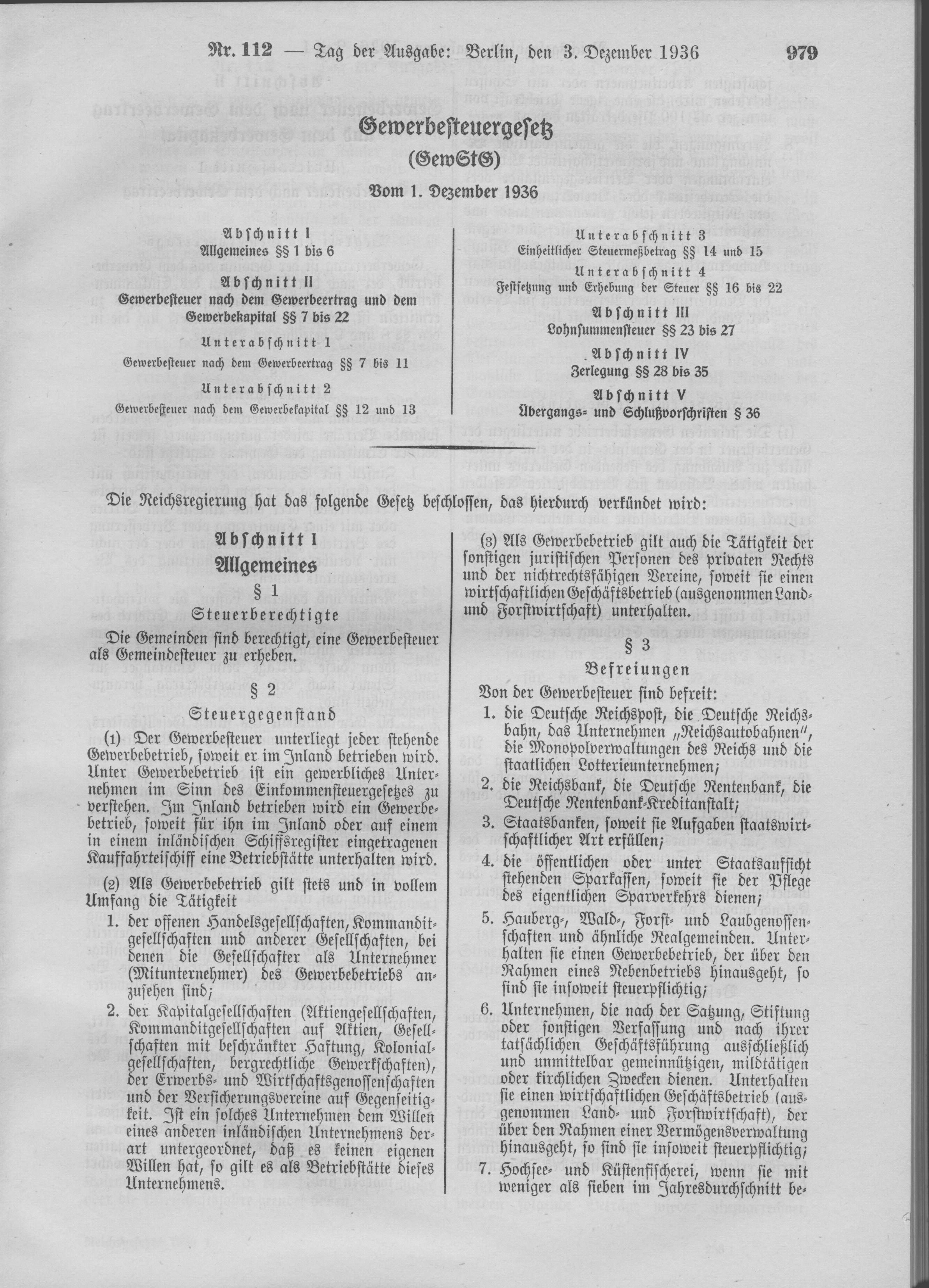 Scan from the Imperial Law Gazette of Germany, 1936, part 1